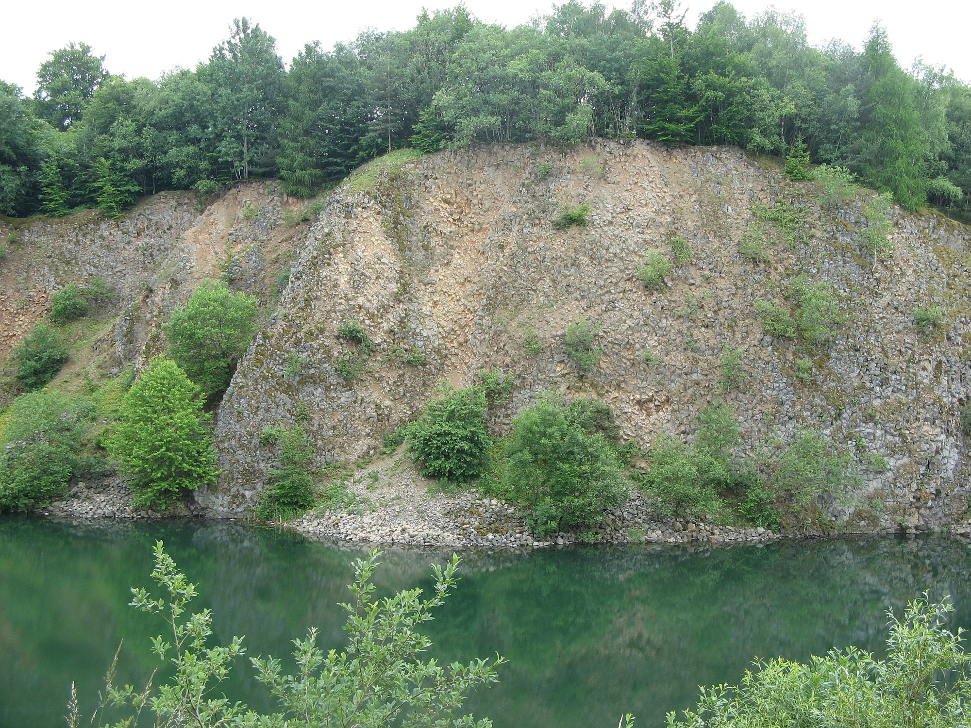 Basaltquarry „Füllburg“ by Lahr (Westerwald), Hesse, Germany